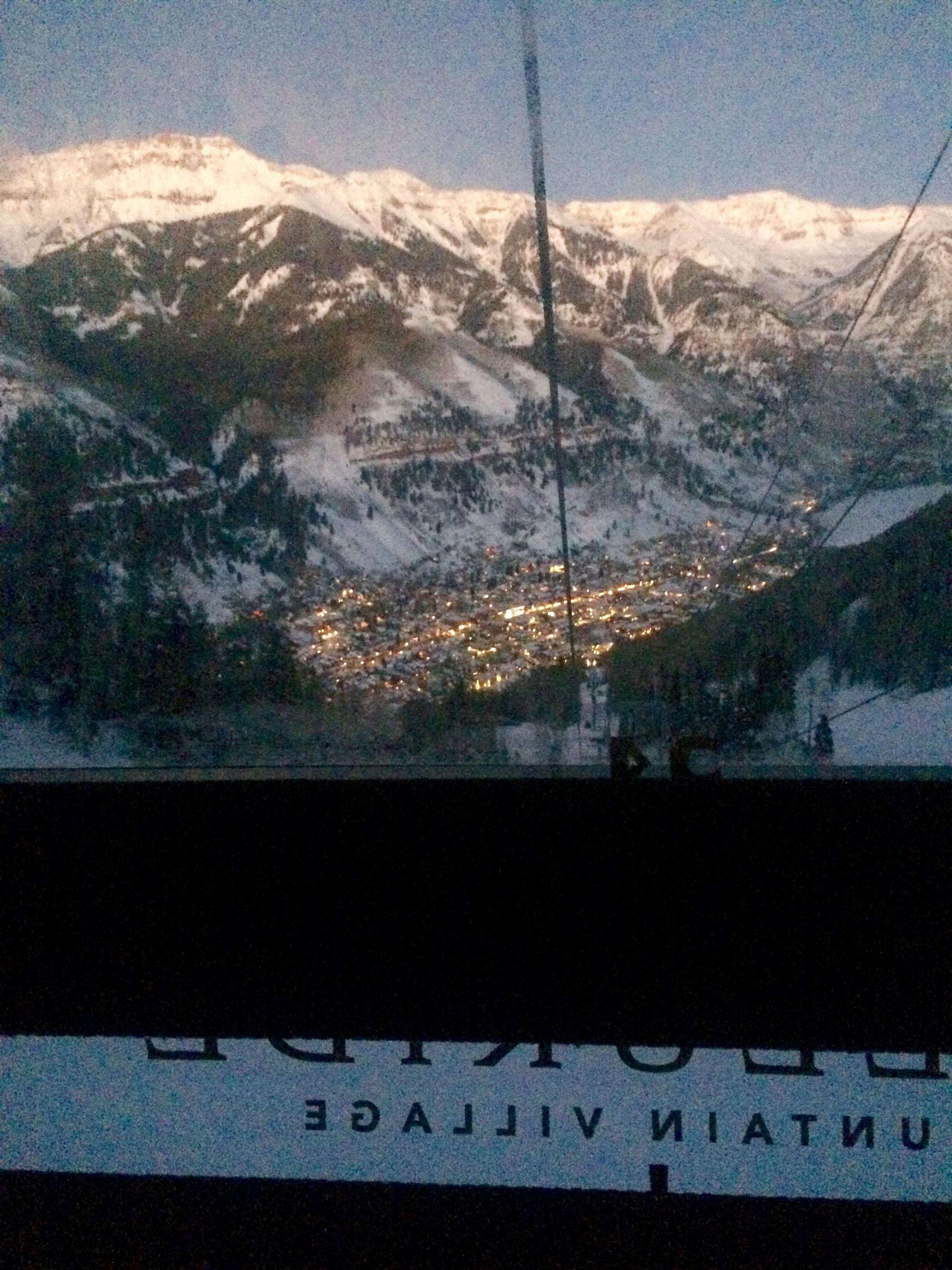 This is a view of Telluride taken from one of the Gondola cabins at night during winter.